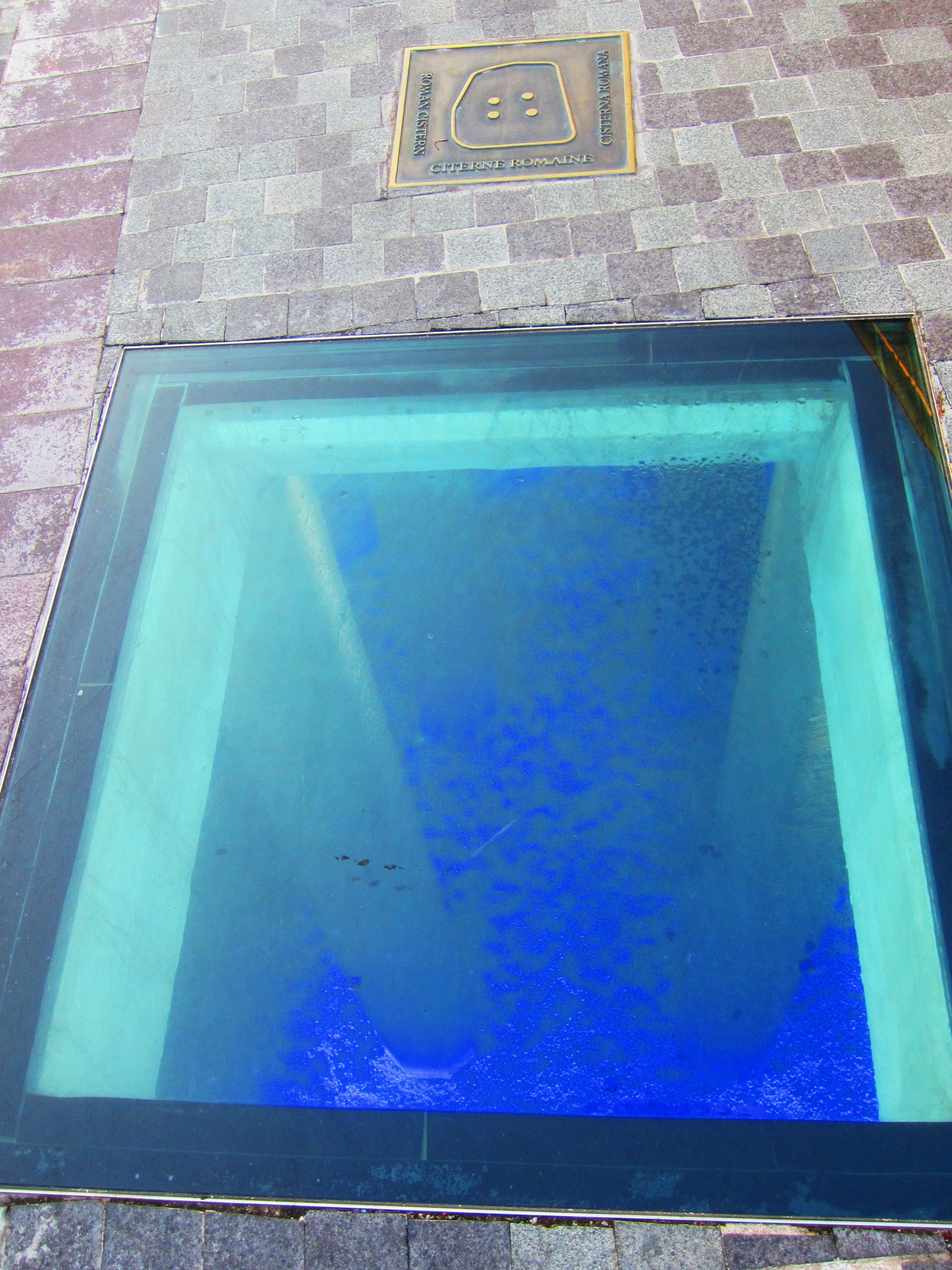 gallo-roman tank Antibes